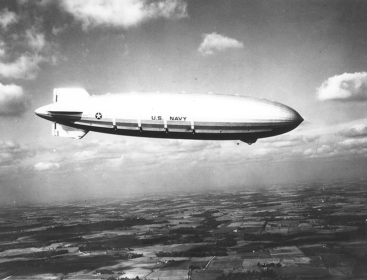 USS Akron (ZRS-4) in flight on 2 November 1931. A Rear Admiral's flag is flying just aft of her control gondola.